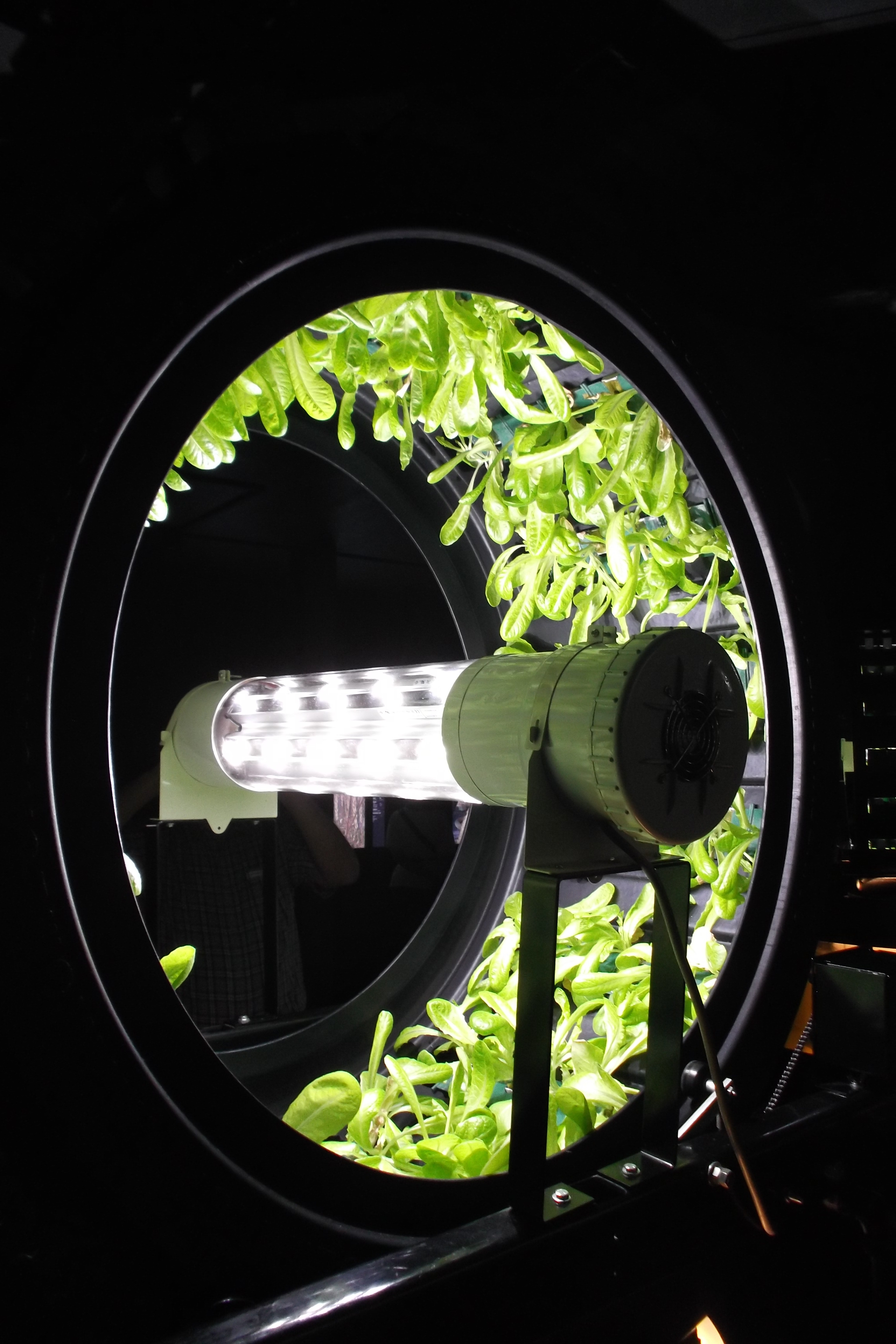 Demonstraction of hydroponic growing in the Belgium pavilion at Expo 2015